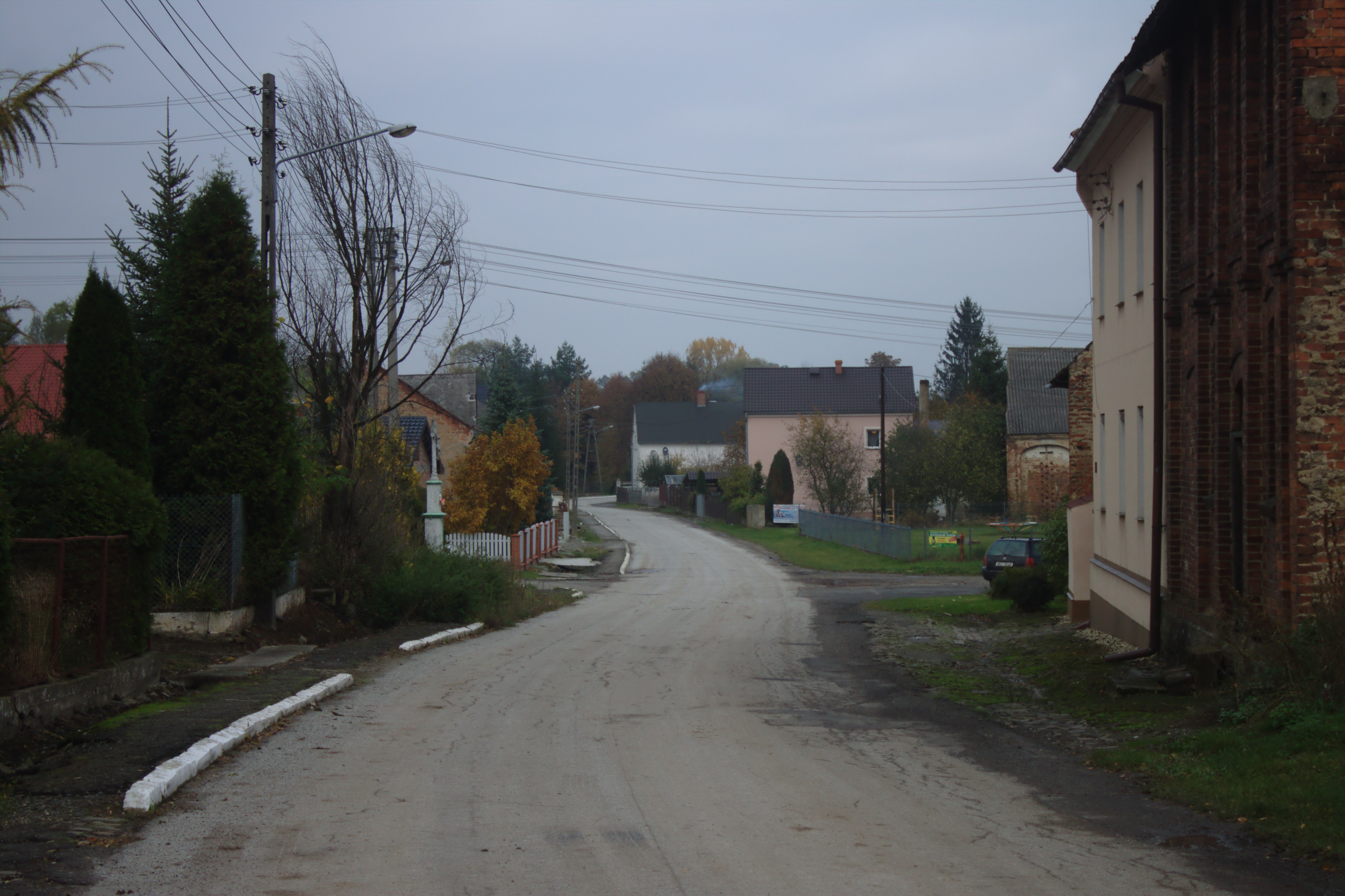 A fall view of the main road in Zawiszyce, Poland